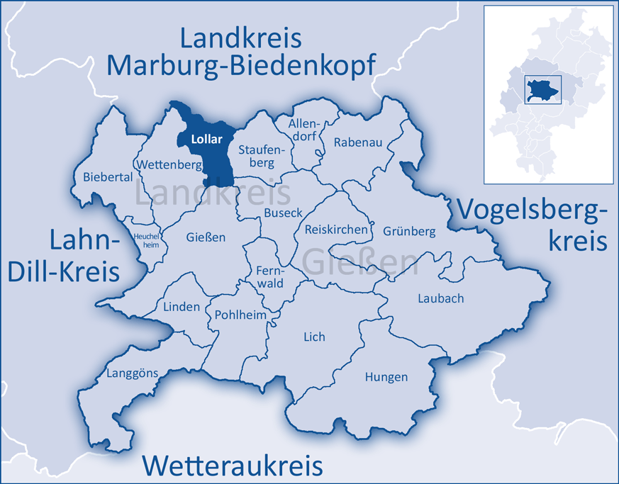 The map shows a district in the area of Gießen (district)